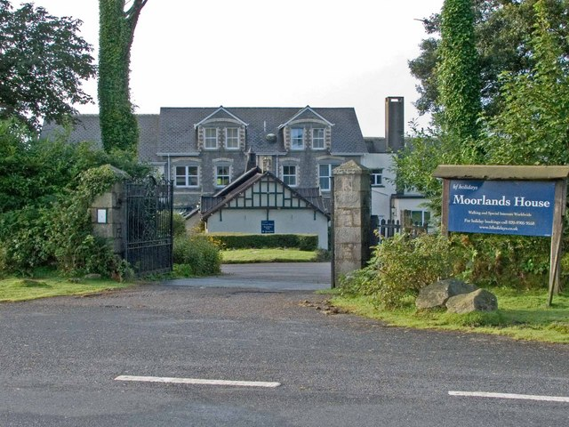 Moorlands House, Hay Tor This is the hotel where Agatha Christie wrote her first novel: The Affair At Stiles. The hotel lounge is named after her and has her books and portrait. Restored after a fire in the 1970's, it is now a private hotel, offering guided walking and special interest holidays.